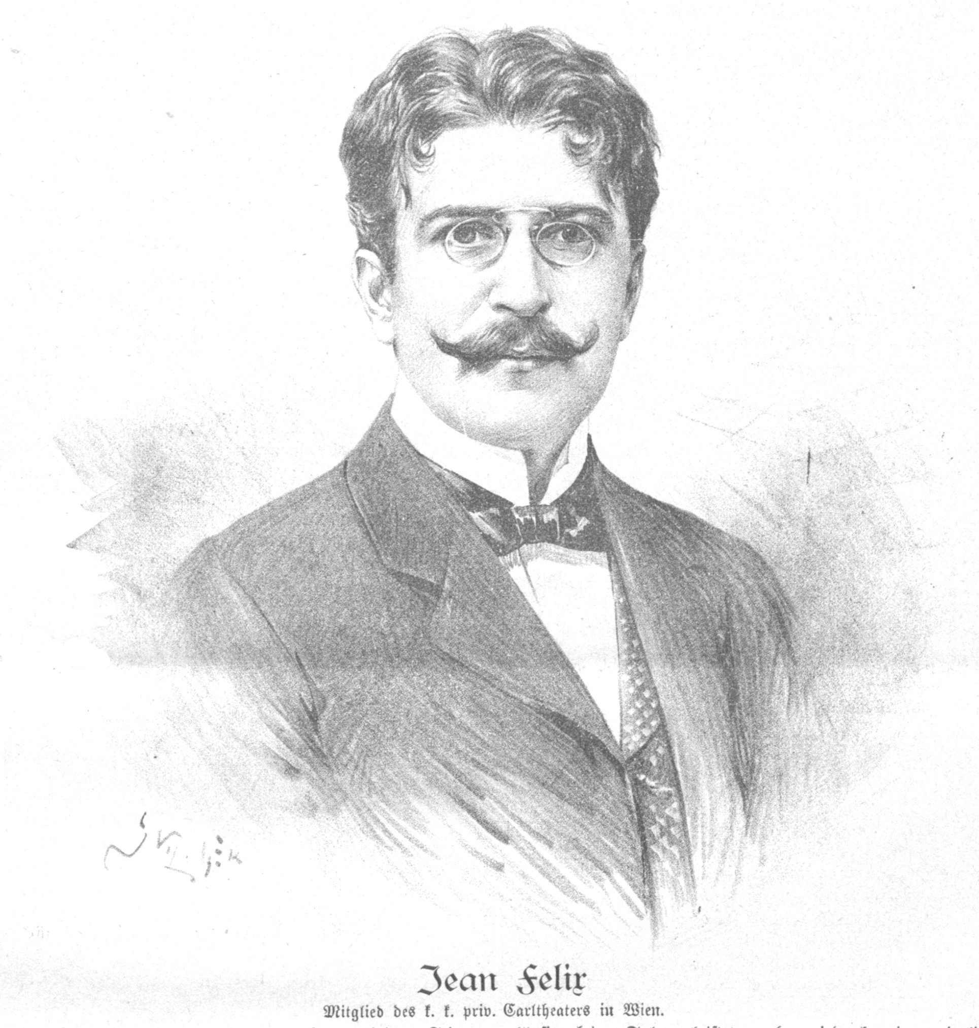 Portrait of Jean Felix (ca 1862-1902), German actor and opera singer.